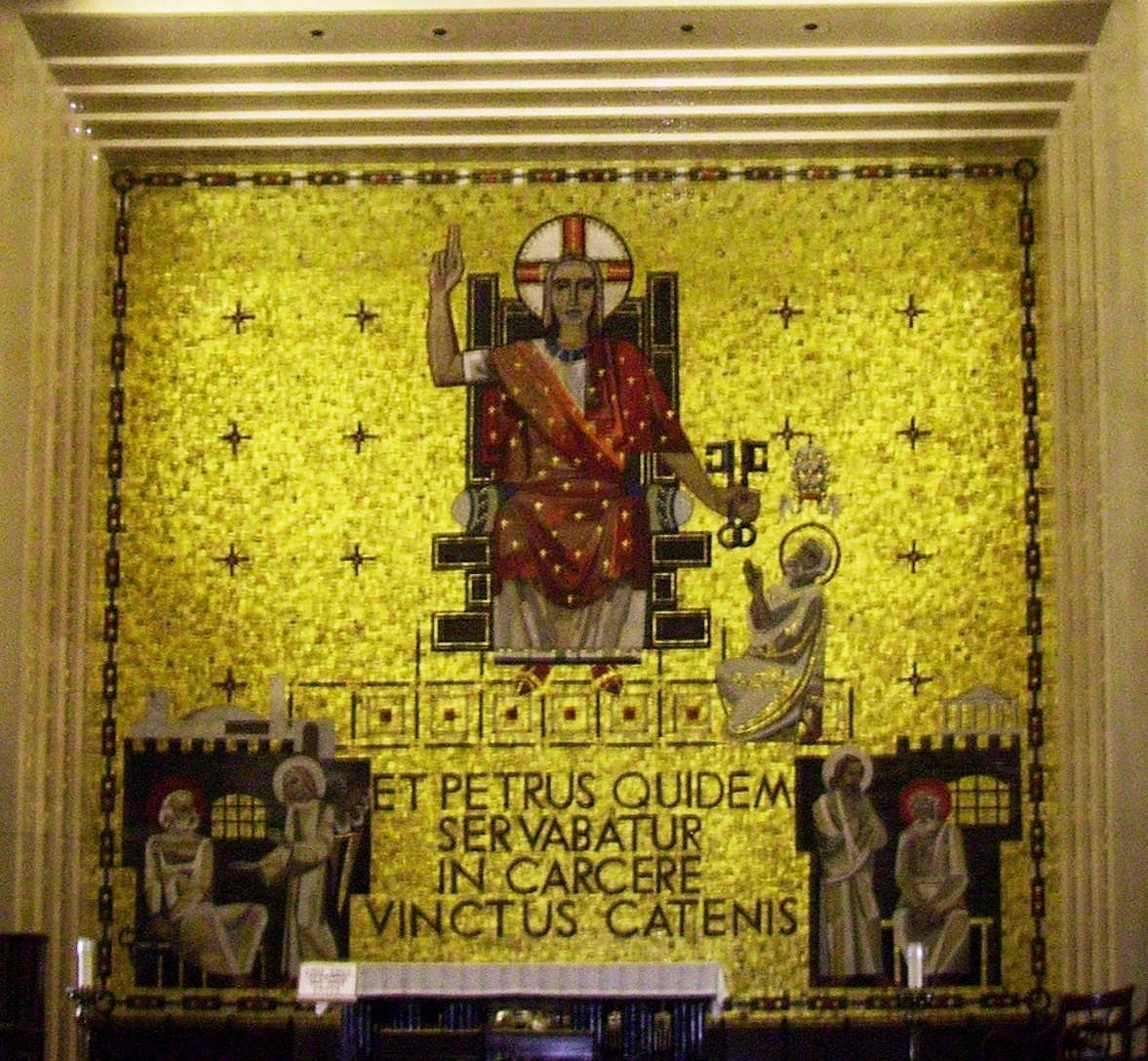 Inside St. Peter's Cathedral in downtown Cincinnati.